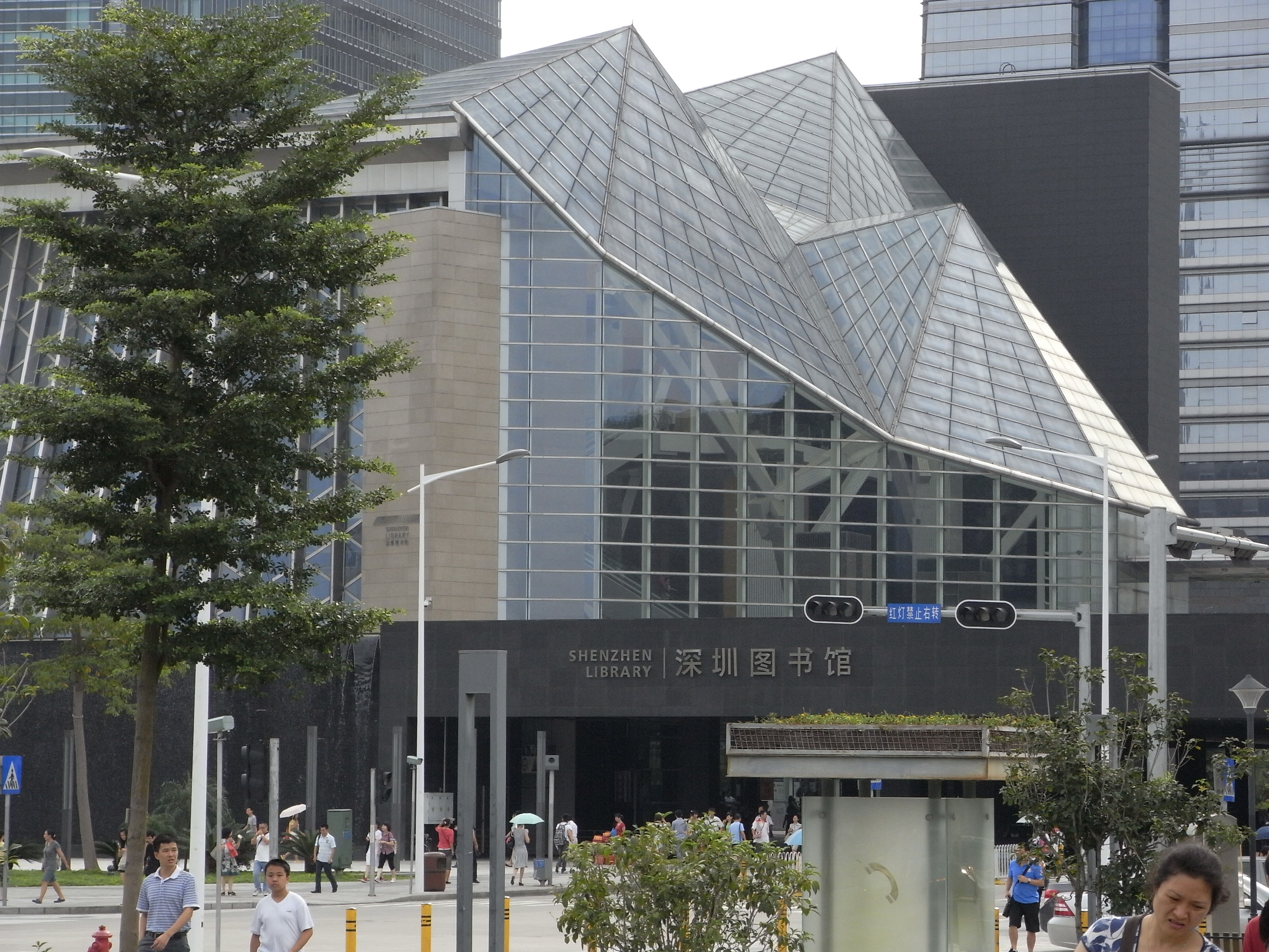 深圳圖書館